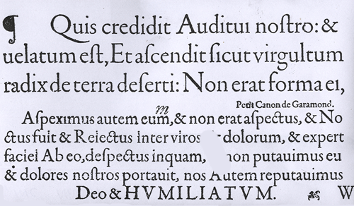 Specimen of the original Claude Garamond typeface. A detail from a type specimen printed by Conrad Berner in Frankfurt am Main in 1592, showing the original Garamond and Granjon types.